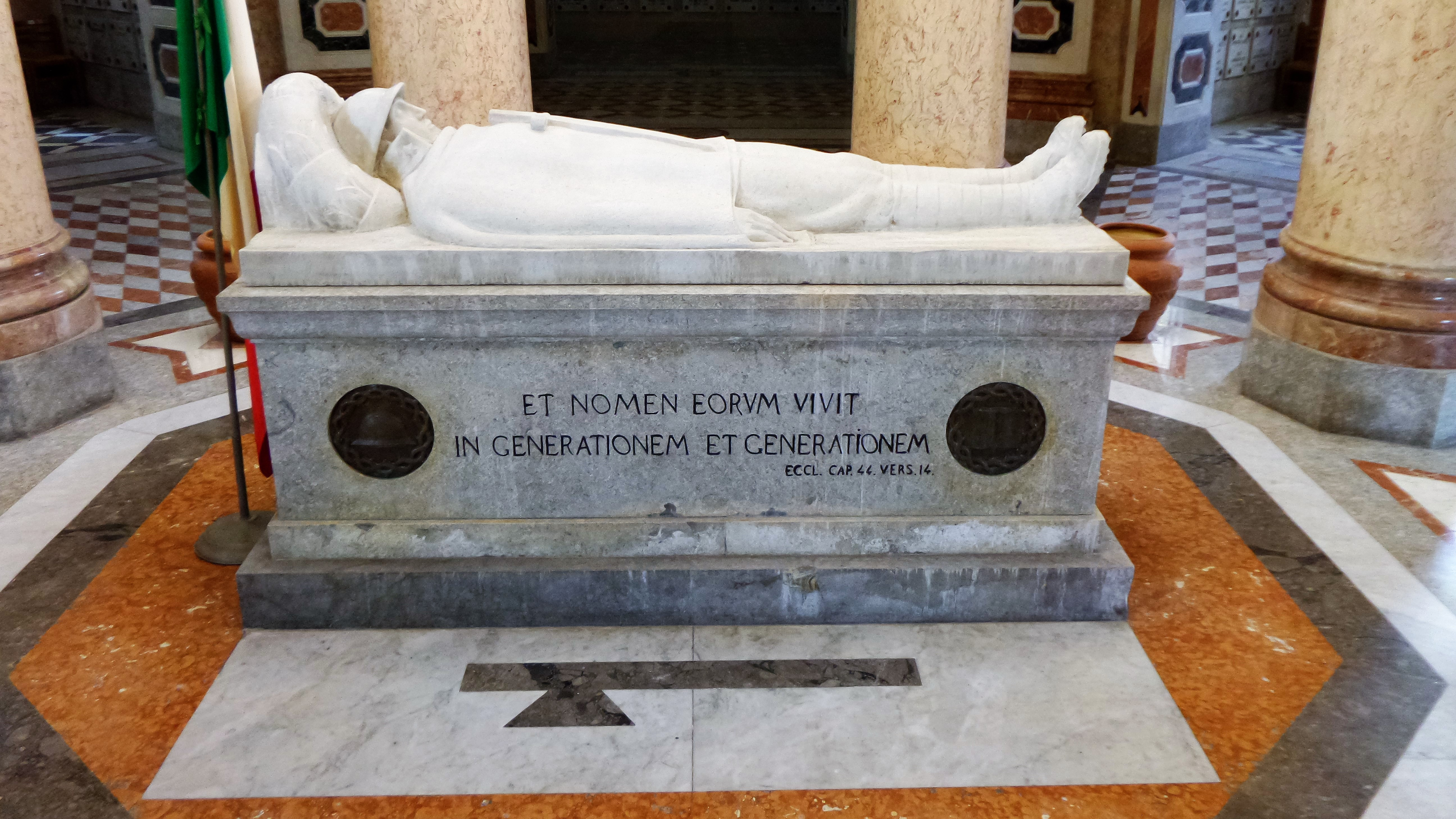 Temple Christ the King (Messina), Memorial of WWI and WWII